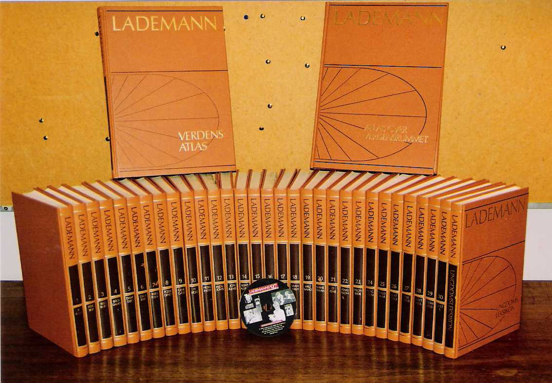 An obsolete paper encyclopaedia compared to the corresponding CD-ROM version.